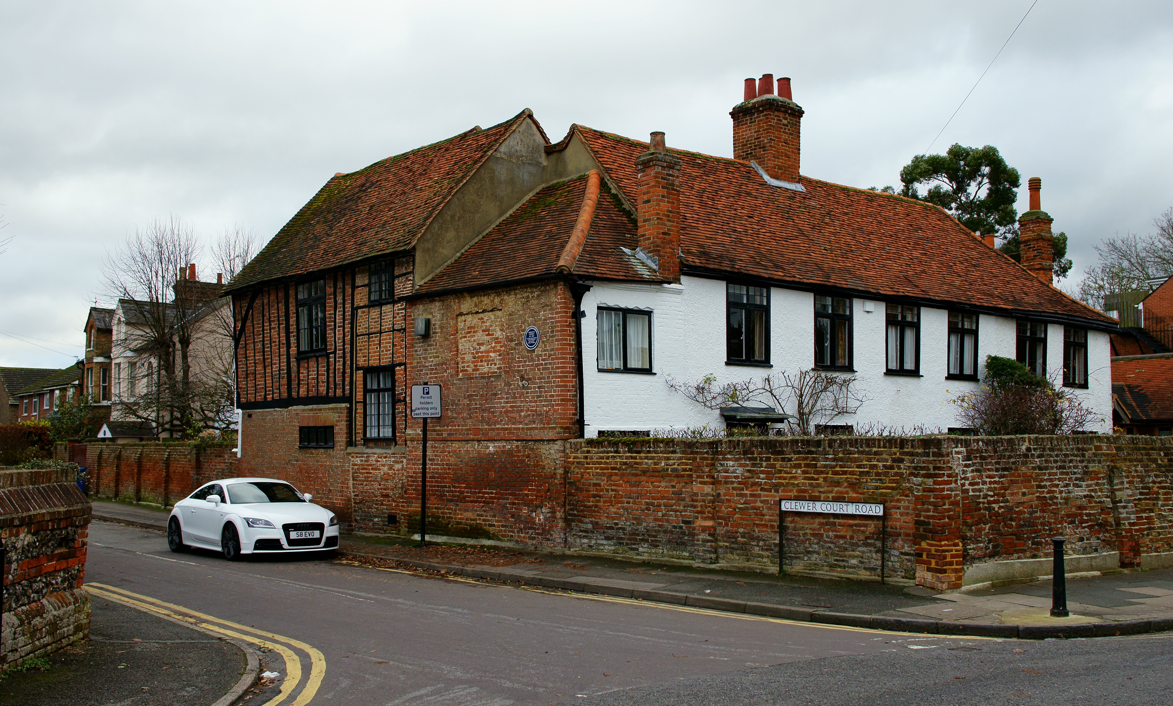 Clewer Village, Berkshire. Mariquita Tennant (November 1, 1811 – February 21, 1860) was a Spain Tennant [née Eroles], Mariquita Dorotea Francesca social reformer.